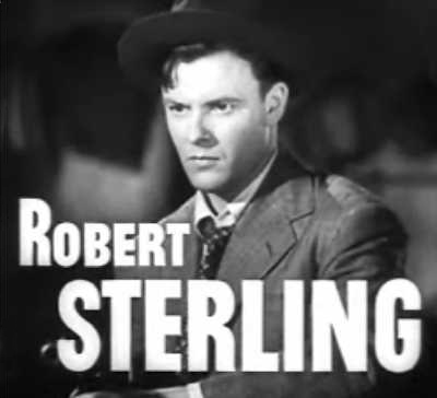 Cropped screenshot of Robert Sterling from the trailer for the film The Get-Away